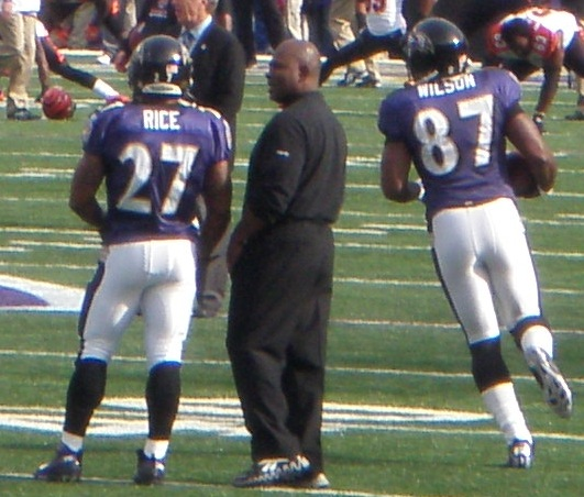 Ray Rice, Wilbert Montgomery, and Kris Wilson of the Baltimore Ravens before a game against the Cincinnati Bengals.